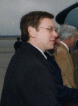 President Reagan on Air Force One (3-5) President Reagan, John Hiler, Robert Orr, John Mutz, Richard Shank, Joe Zakas, Joseph Kernan, Edward Malloy, Andrew McKenna (Not in all photos) (6-16)